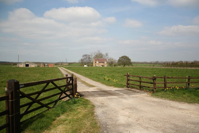 Limes Cottage Farm cottage and buildings at The Limes